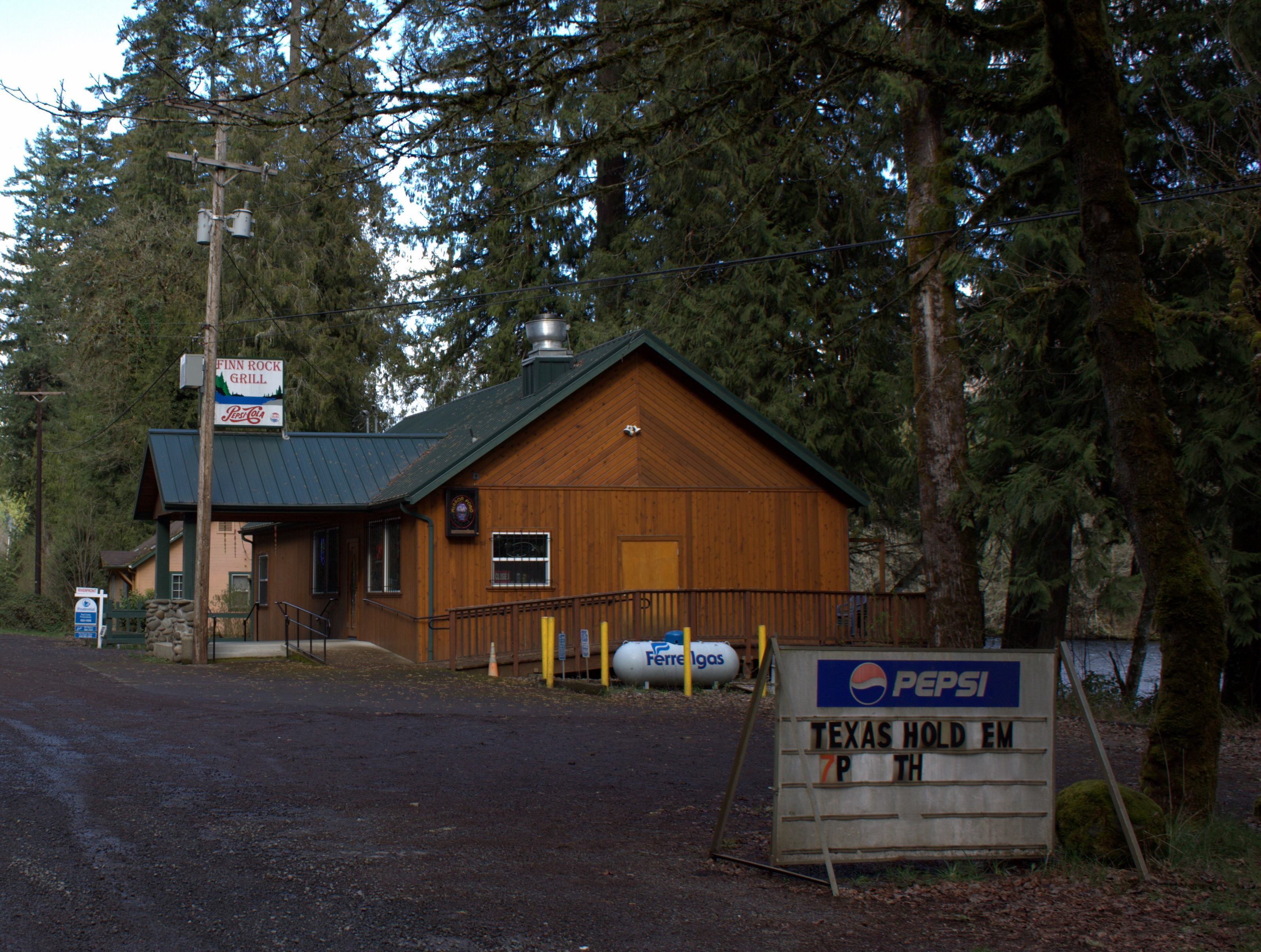 Restaurant in Finn Rock, Oregon, an unincorporated community along the McKenzie River in Lane County